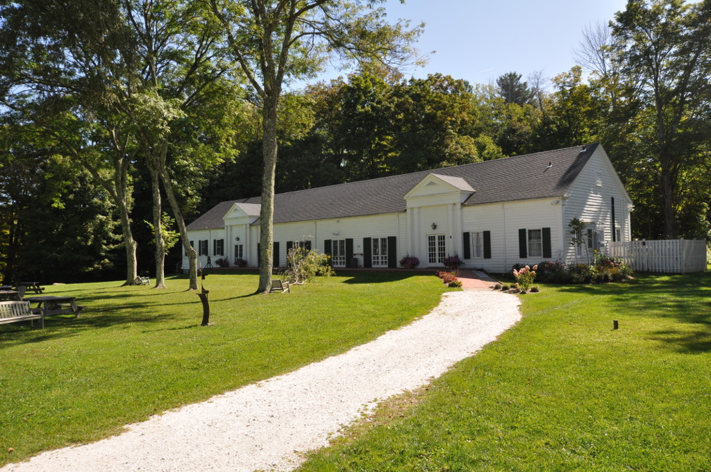 Music Mountain, Canaan, Connecticut. The main concert hall.